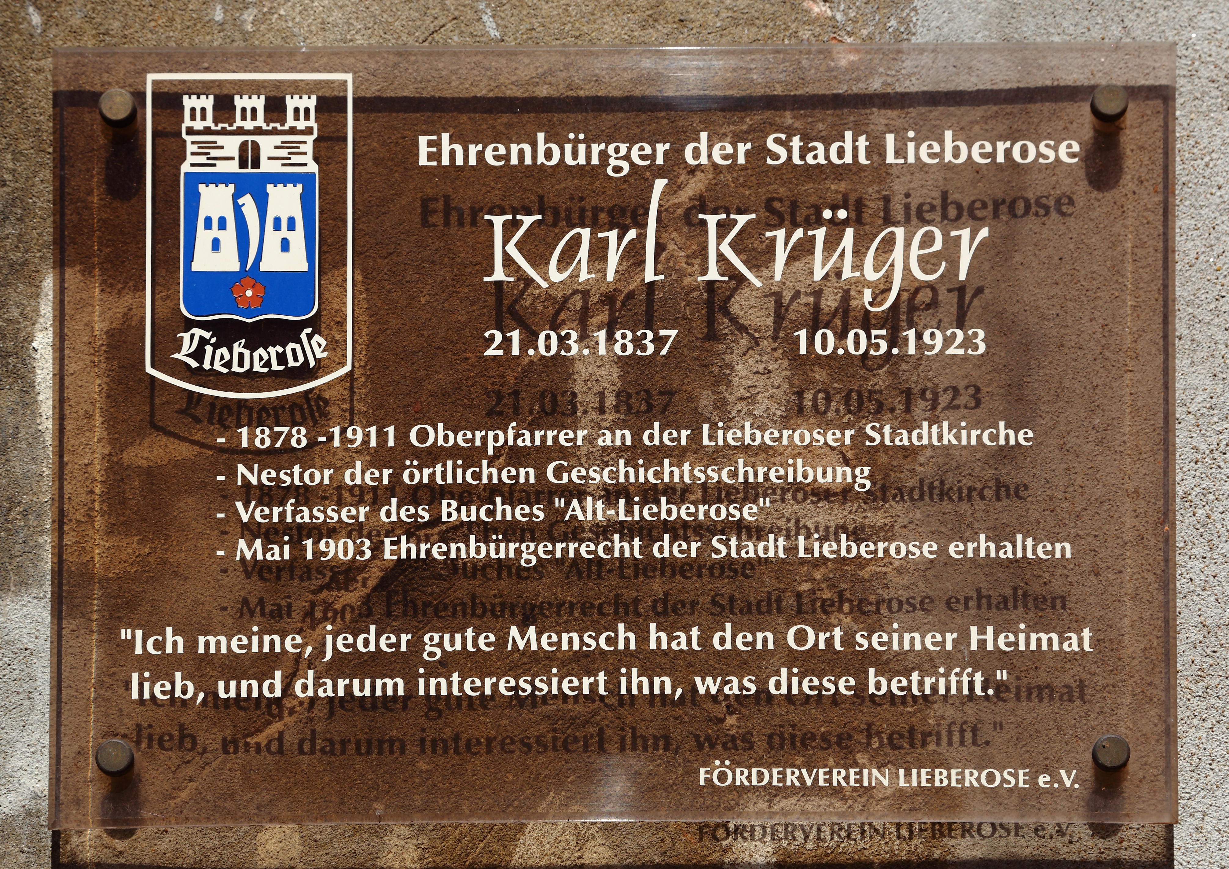 Commemorative plaque for pastor Karl Krüger on the City Church (Stadtkirche) in Lieberose, Landkreis Dahme-Spreewald, Brandenburg, Germany. Karl Krüger served as a pastor at the City Church and was a local historian and honorary citizen of Lieberose.